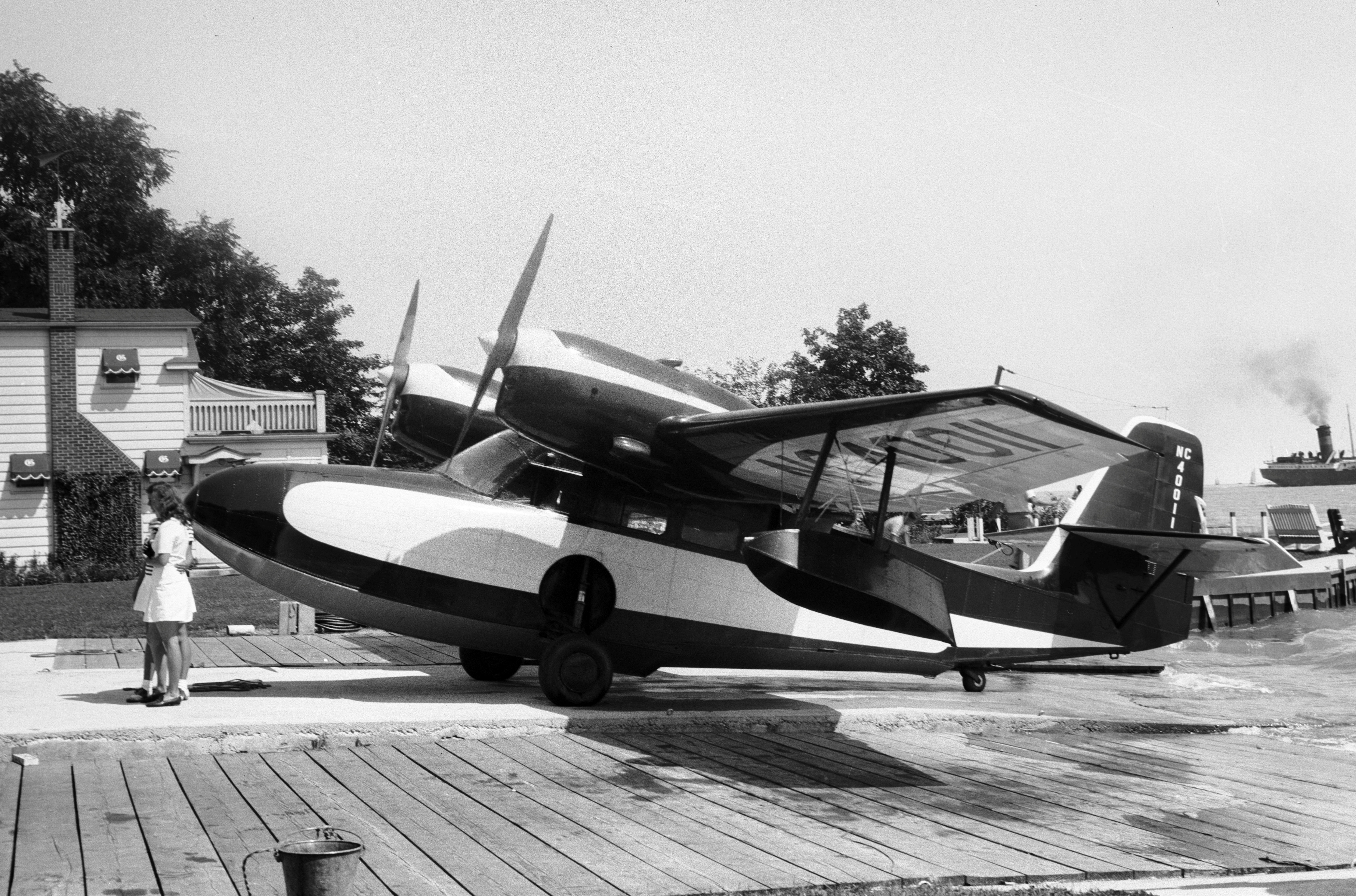 Grumman G-44 Widgeon NC40011 at Garland's Seaplane Base, owned by Harry G. Garland, on the Detroit River in 1947. In 1947 there were 11 seaplane bases operating in Michigan, and only Garland's Seaplane Base had the facilities to accommodate large amphibians like the Grumman.